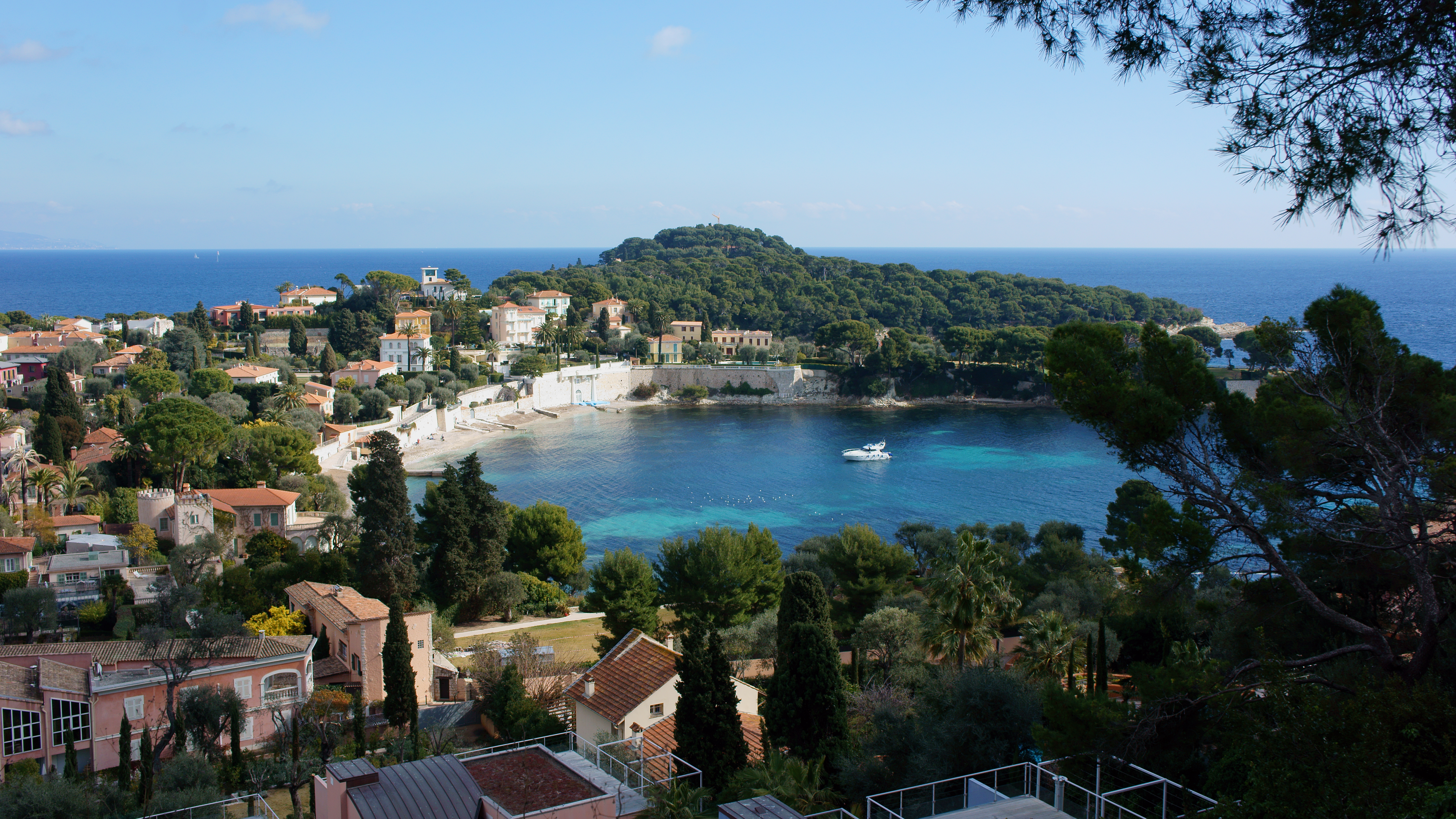 View across Anse des Fosses from the top of the Cap Ferrat hill